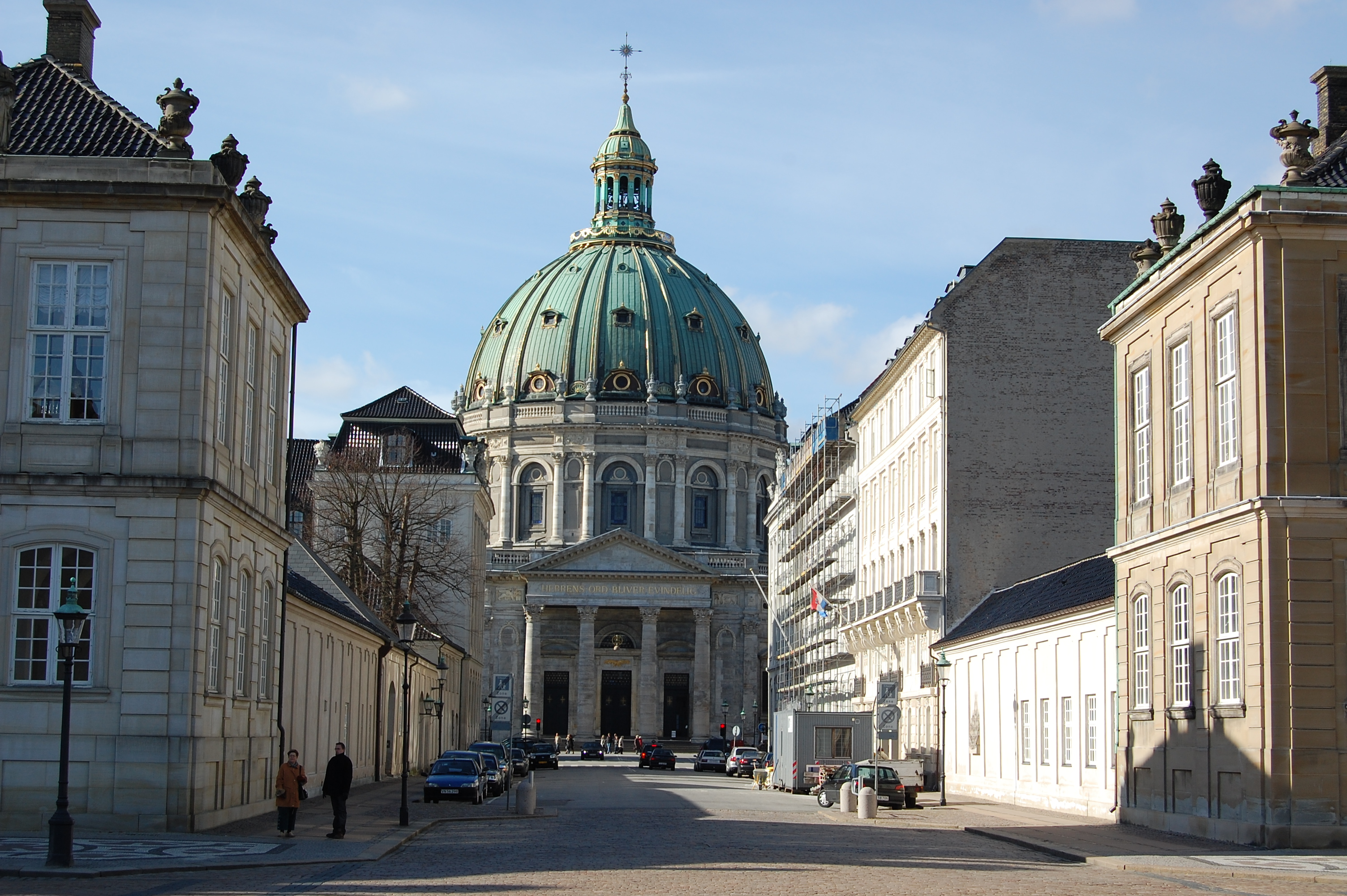 Frederiksgade with the Marble Church in Copenhagen, Denmark